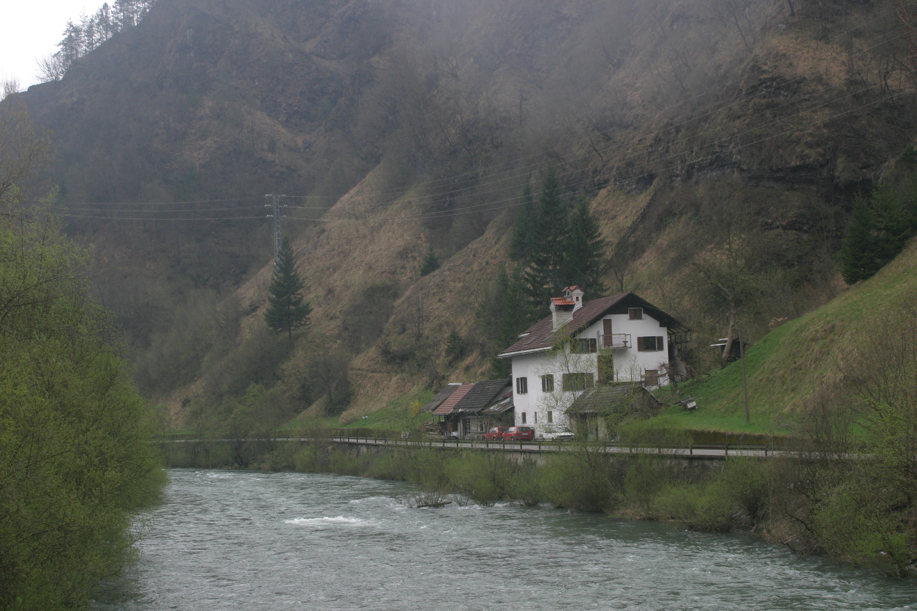 Idrijca River at Spodnja Idrija